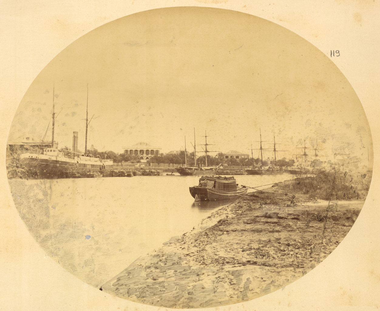 In 1874-75, the Russian government sent a research and trading mission to China to seek out new overland routes to the Chinese market, report on prospects for increased commerce and locations for consulates and factories, and gather information about the Dungan Revolt then raging in parts of western China. Led by Lieutenant Colonel Iulian A. Sosnovskii of the army General Staff, the nine-man mission included a topographer, Captain Matusovskii; a scientific officer, Dr. Pavel Iakovlevich Piasetskii; Chinese and Russian interpreters; three non-commissioned Cossack soldiers; and the mission photographer, Adolf Erazmovich Boiarskii. The mission proceeded from Saint Petersburg to Shanghai via Ulan Bator (Mongolia), Beijing, and Tianjin, and then followed a route along the Yangtze River, along the Great Silk Road through the Hami oasis, to Lake Zaysan, back to Russia. Boiarskii took some 200 photographs, which constitute a unique resource for the study of China in this period. Most of the photographs are included in this album, which later became part of the Thereza Christina Maria Collection assembled by Emperor Pedro II of Brazil and given by him to the National Library of Brazil. Boats and boating; Cities and towns; Hai River; Memory of the World; Rivers; Sailboats